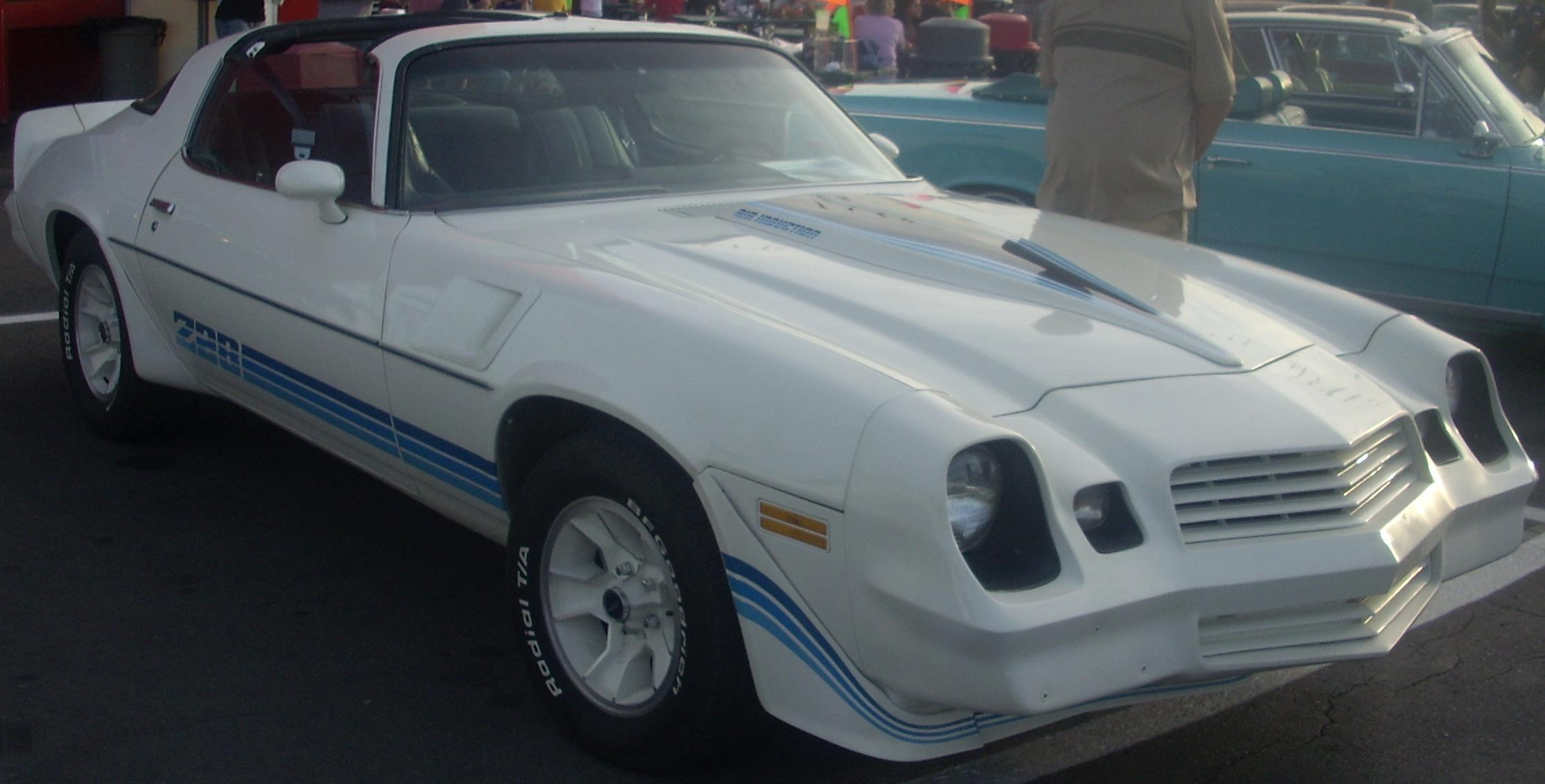 Chevrolet Camaro photographed in Montreal, Quebec, Canada at Gibeau Orange Julep.